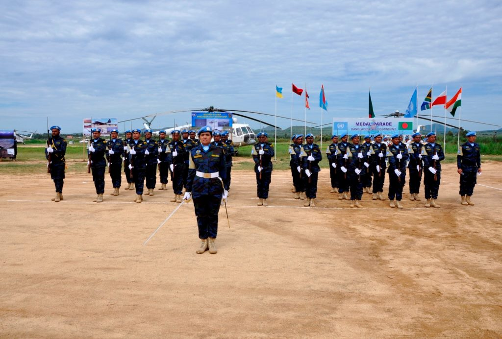 Guard of Honor during UN Medal Awarding Parade at Bunia. Province Orientale. Republique democratique du Congo